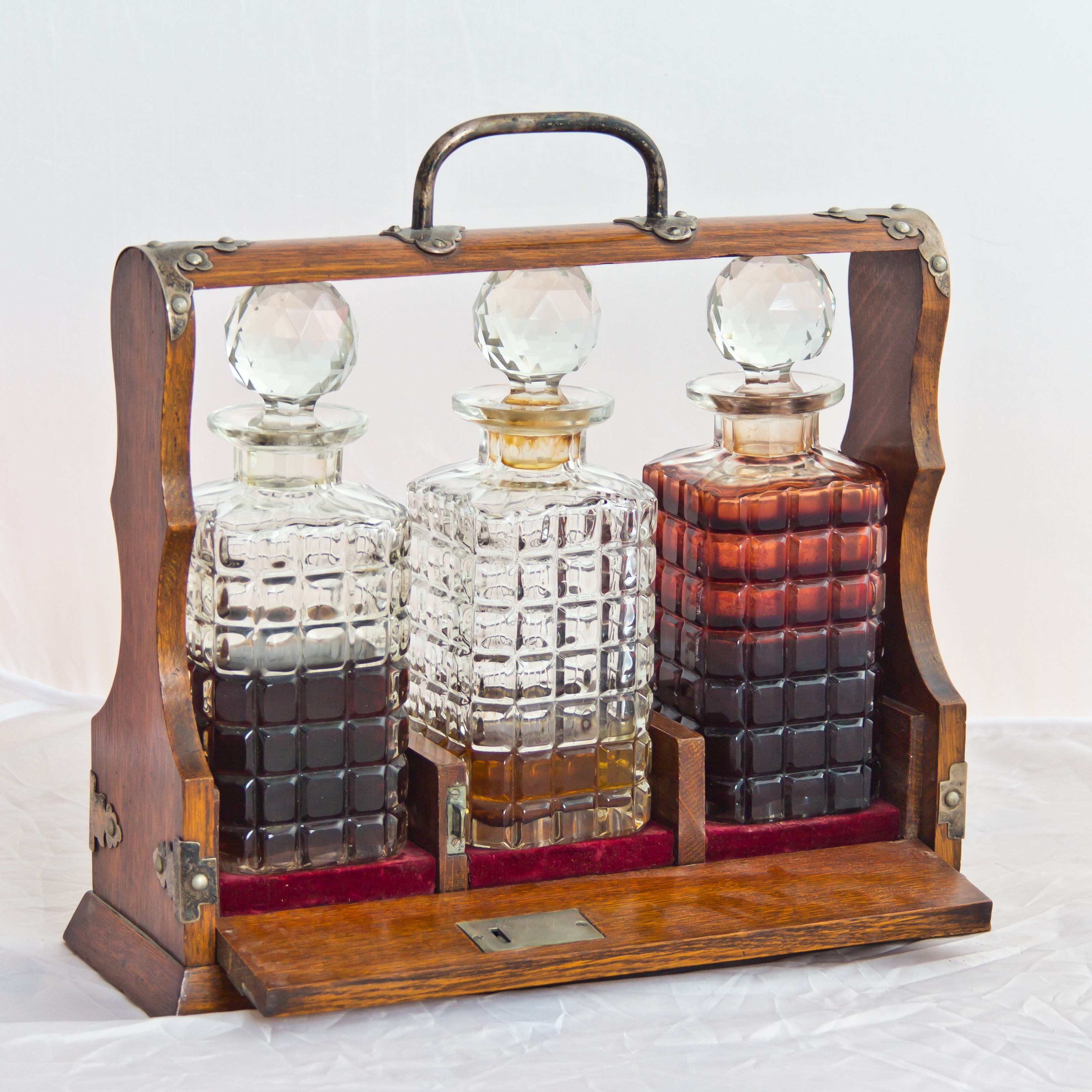 Tantalus with 3 bottles. The front is open, therefore it is possible to take the bottles from the tantalus.